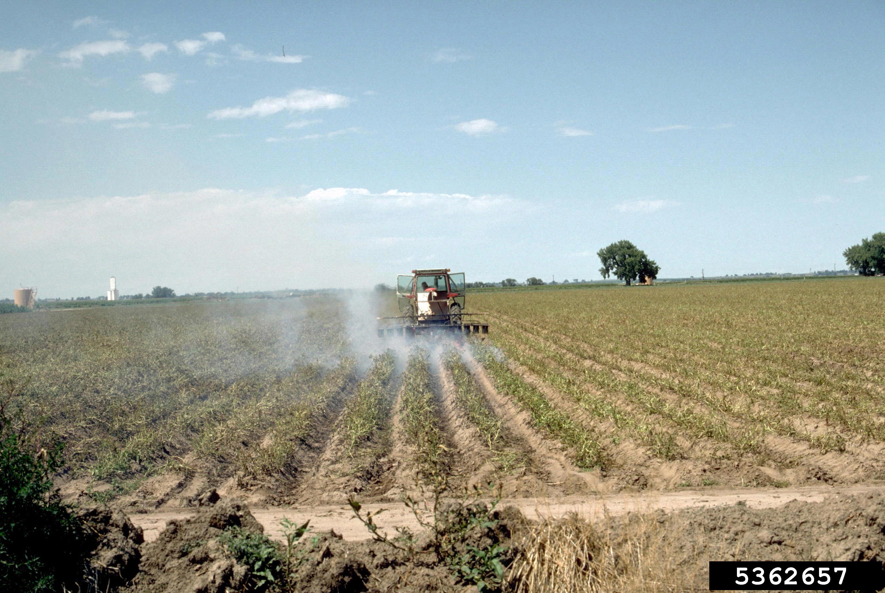 Burning of potato vines as part of the harvesting operation in the fieldDéfanage thermique de pommes de terre